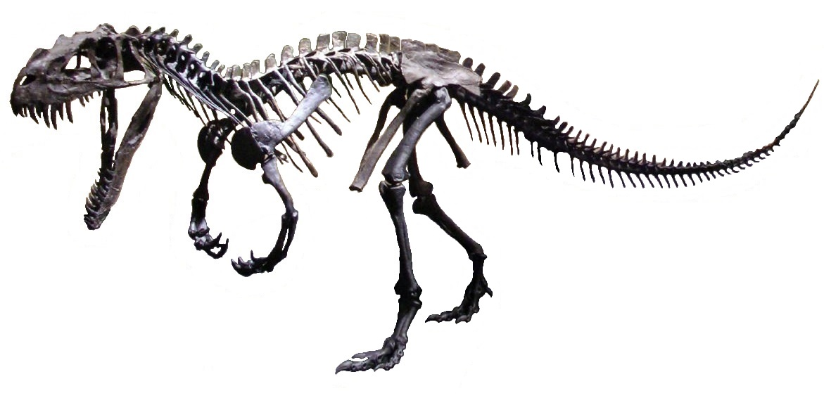 Ceratosaurus skeleton mount, Wisconsin